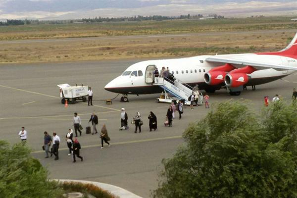 fly mehrabad xoy